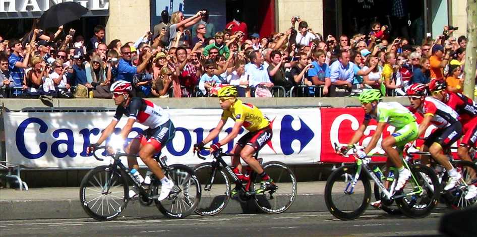 Cadel Evans cycling with the peloton through Paris on the final day of the 2011 Tour de France.